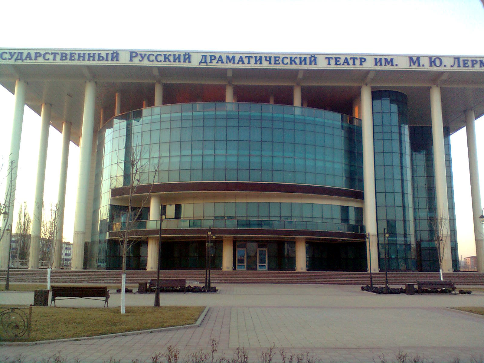 Grozny Russian Drama Theatre